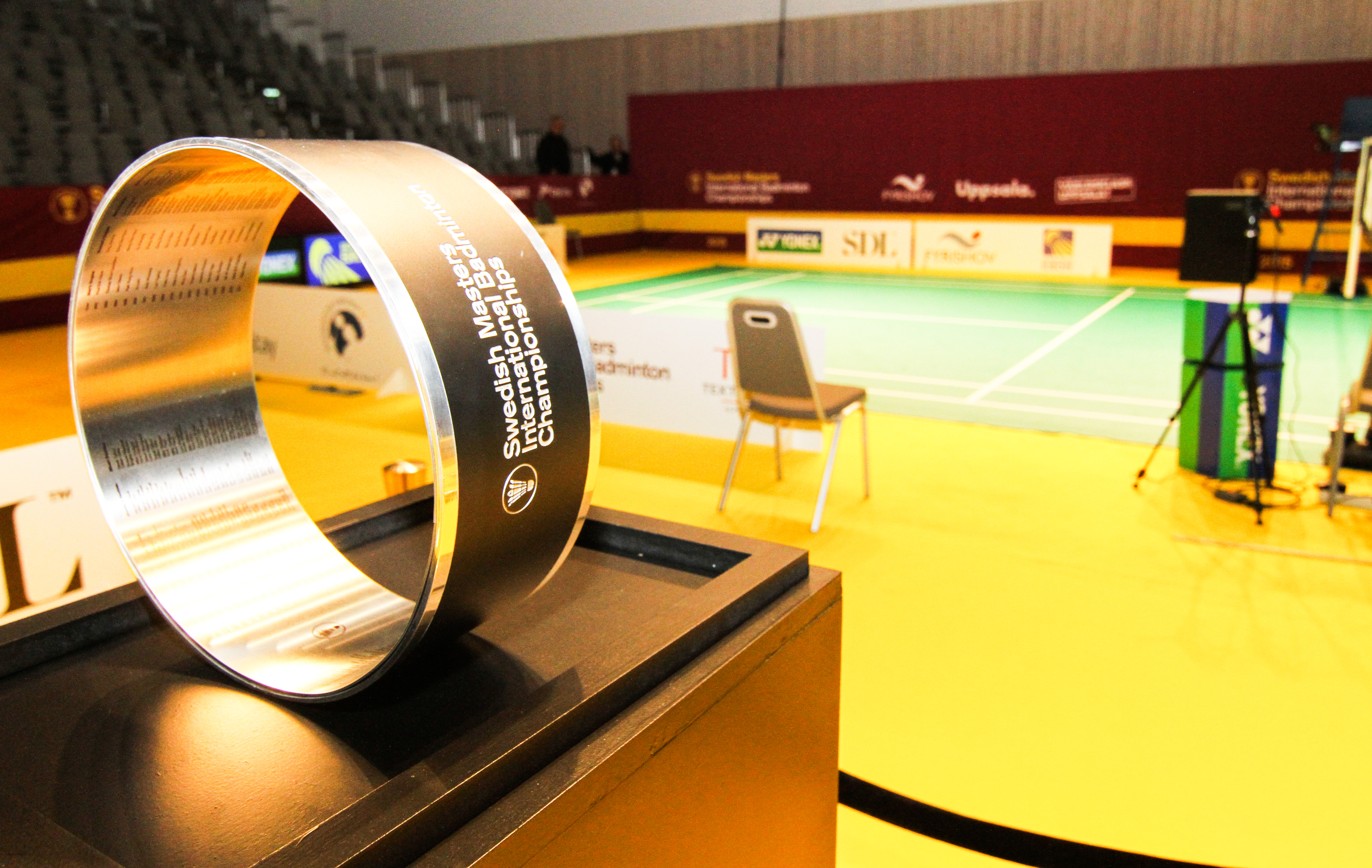 Swedish Master Badminton trophy.